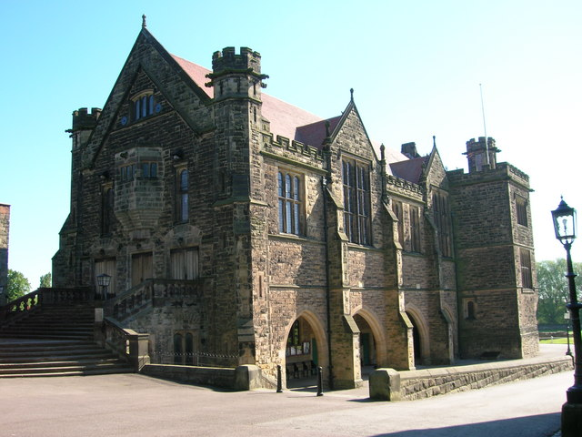 Repton School An independent school for over 450 years. Past pupils include Jeremy Clarkson.